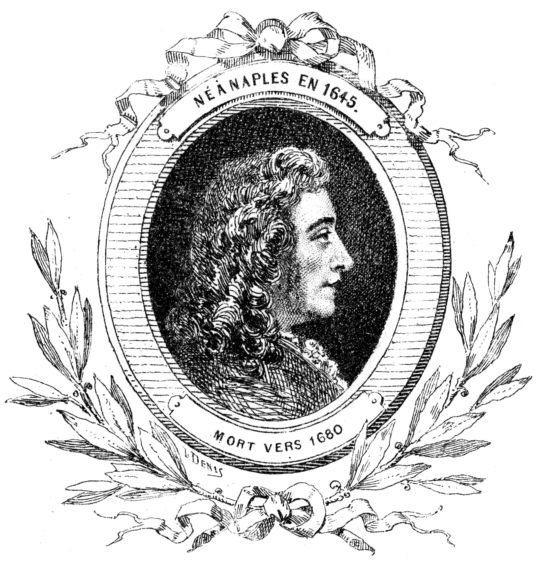 Depicted person: Alessandro Stradella